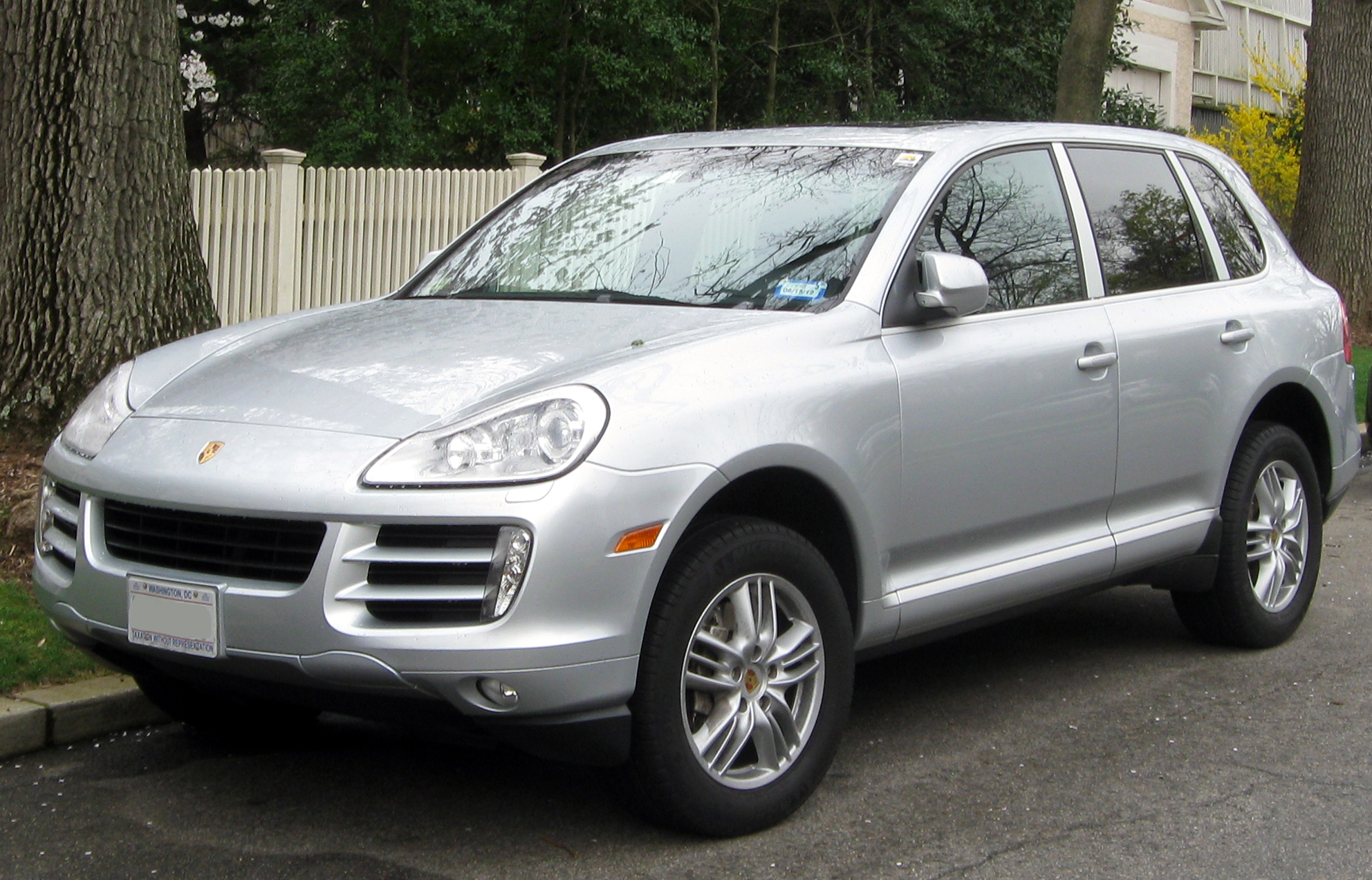 2008-2010 Porsche Cayenne S photographed in Washington, D.C., USA.